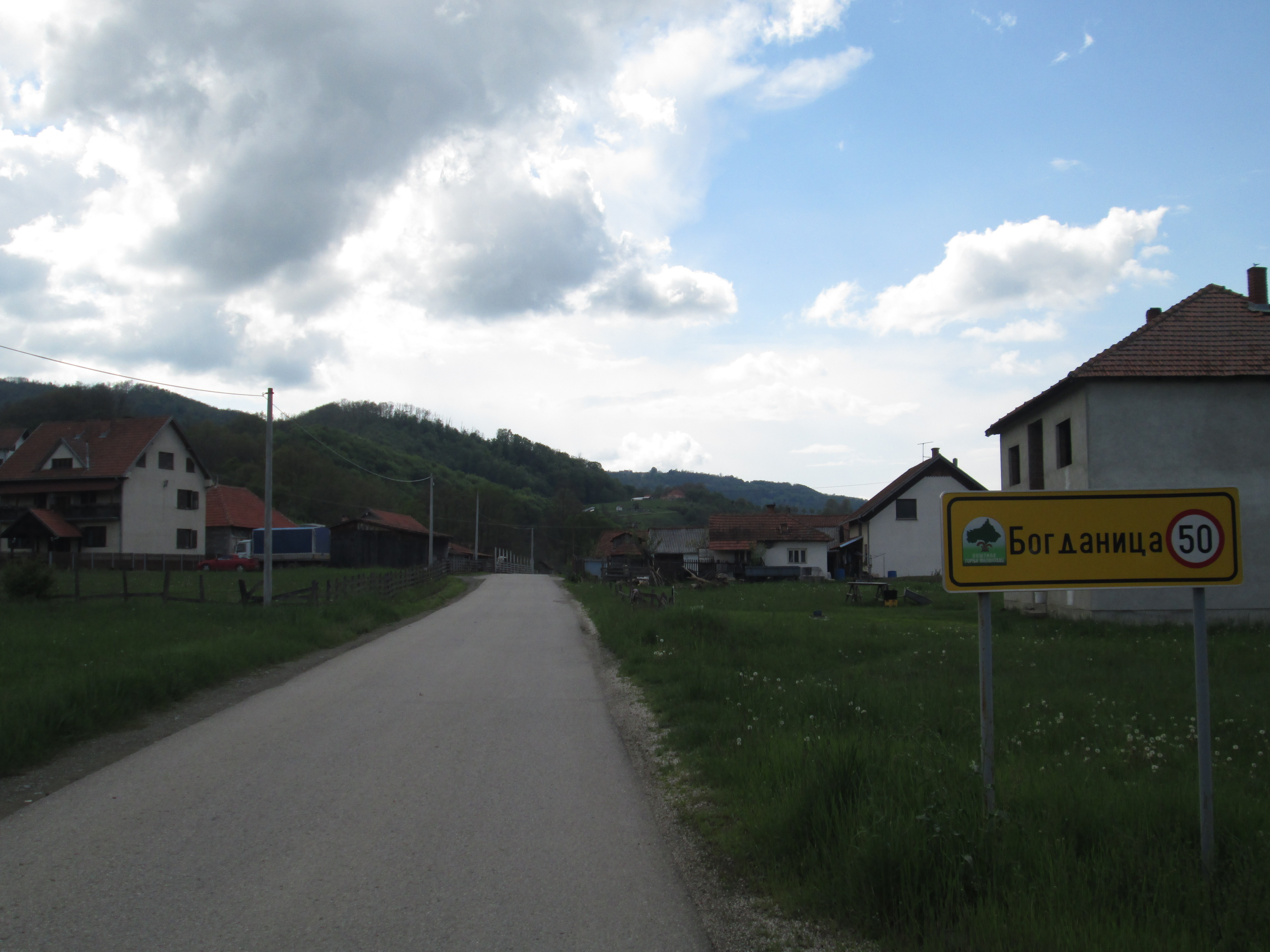 View over the village, Bogdanica Српски (ћирилица): Улаз у село, Богданица